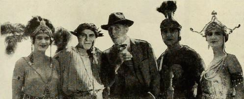 Still showing the cast and director for the American film Nero (1922) with (from left) Paulette Duval, Jacques Grétillat, director J. Gordon Edwards, and two unidentified actors, on page 76 of the August 1922 Photoplay.